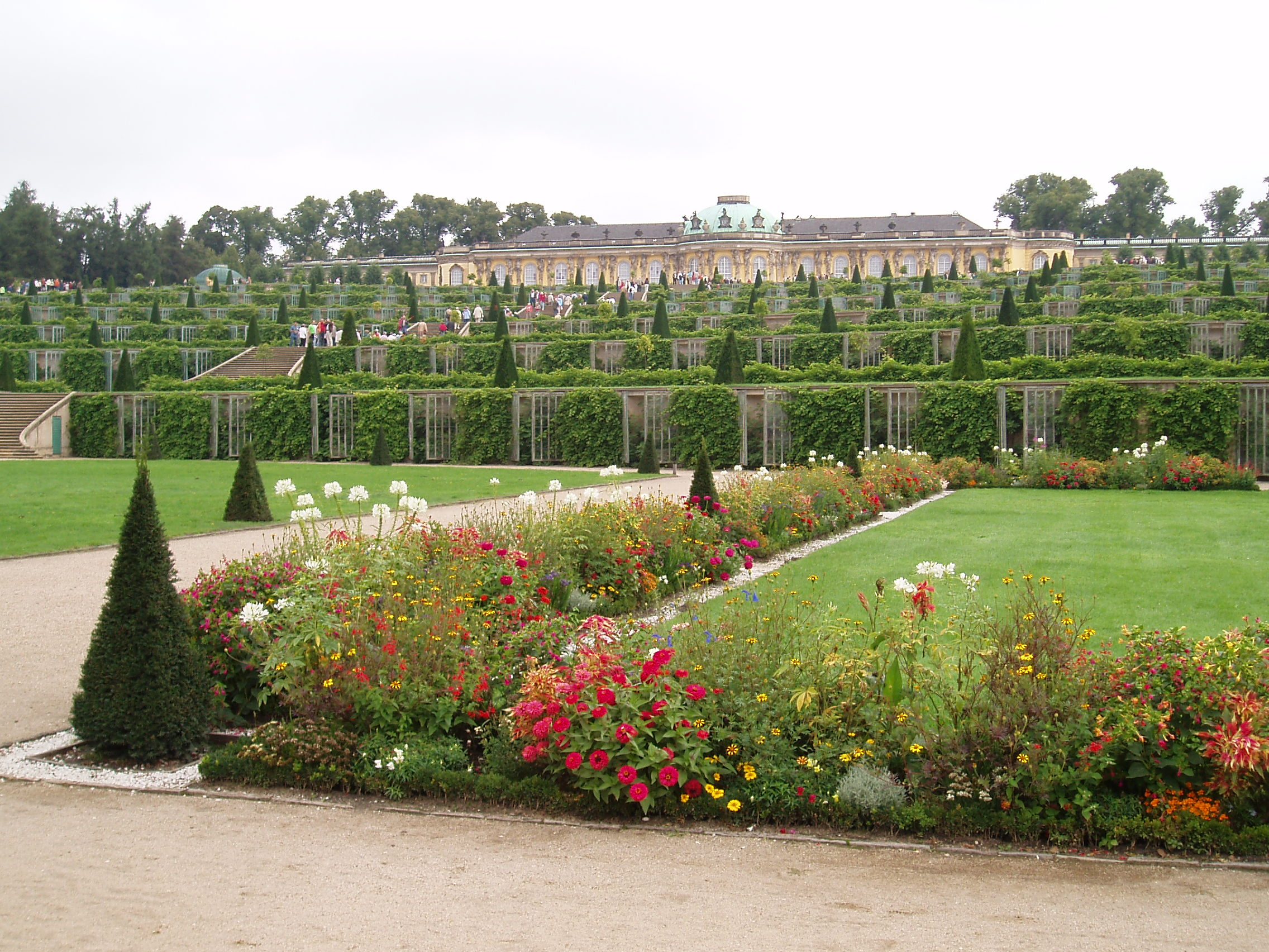 Sanssouci - the Palace and surrounding Park built in Potsdam, Germany by Frederick the Great